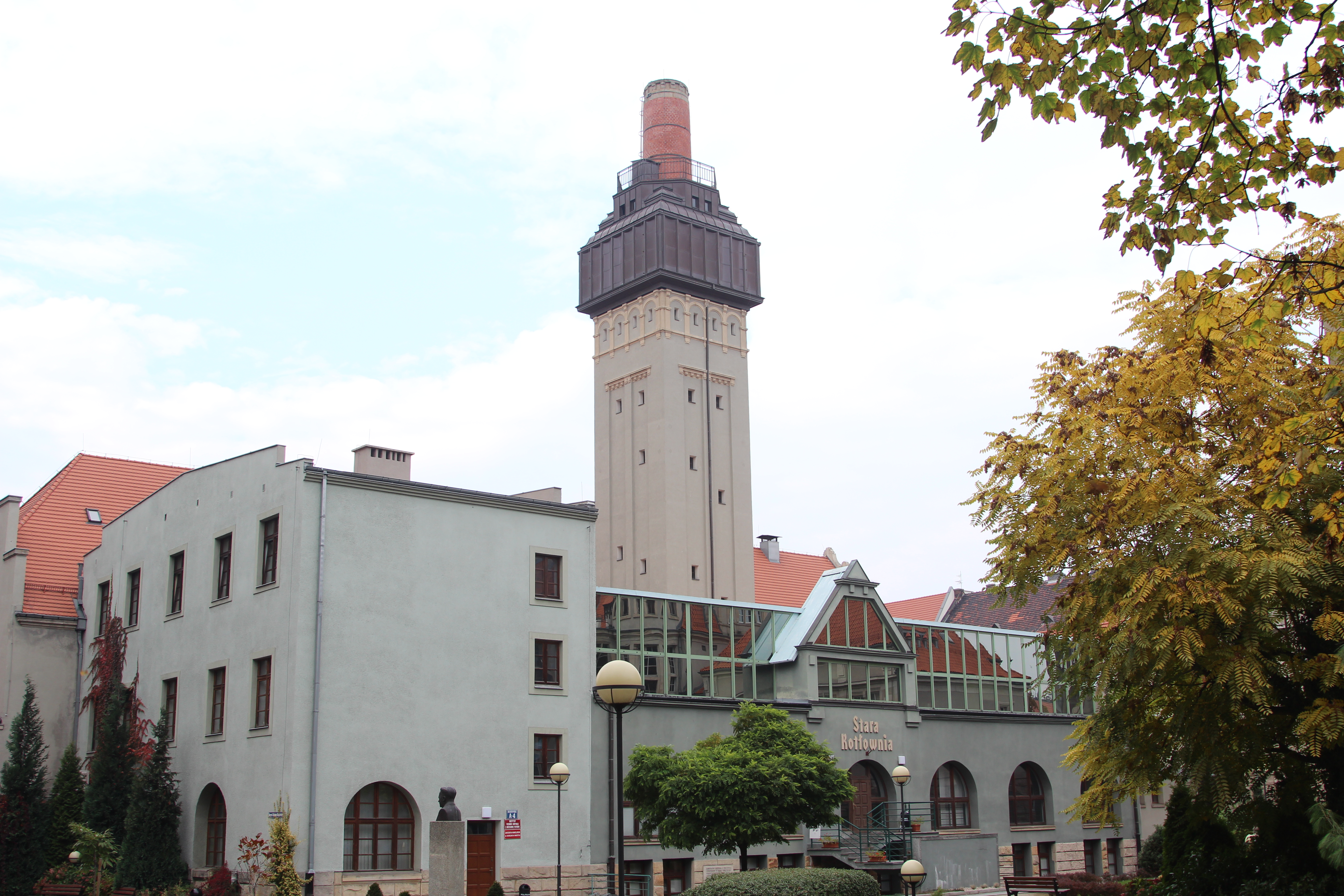 A4 building of Wrocław University of Technology.